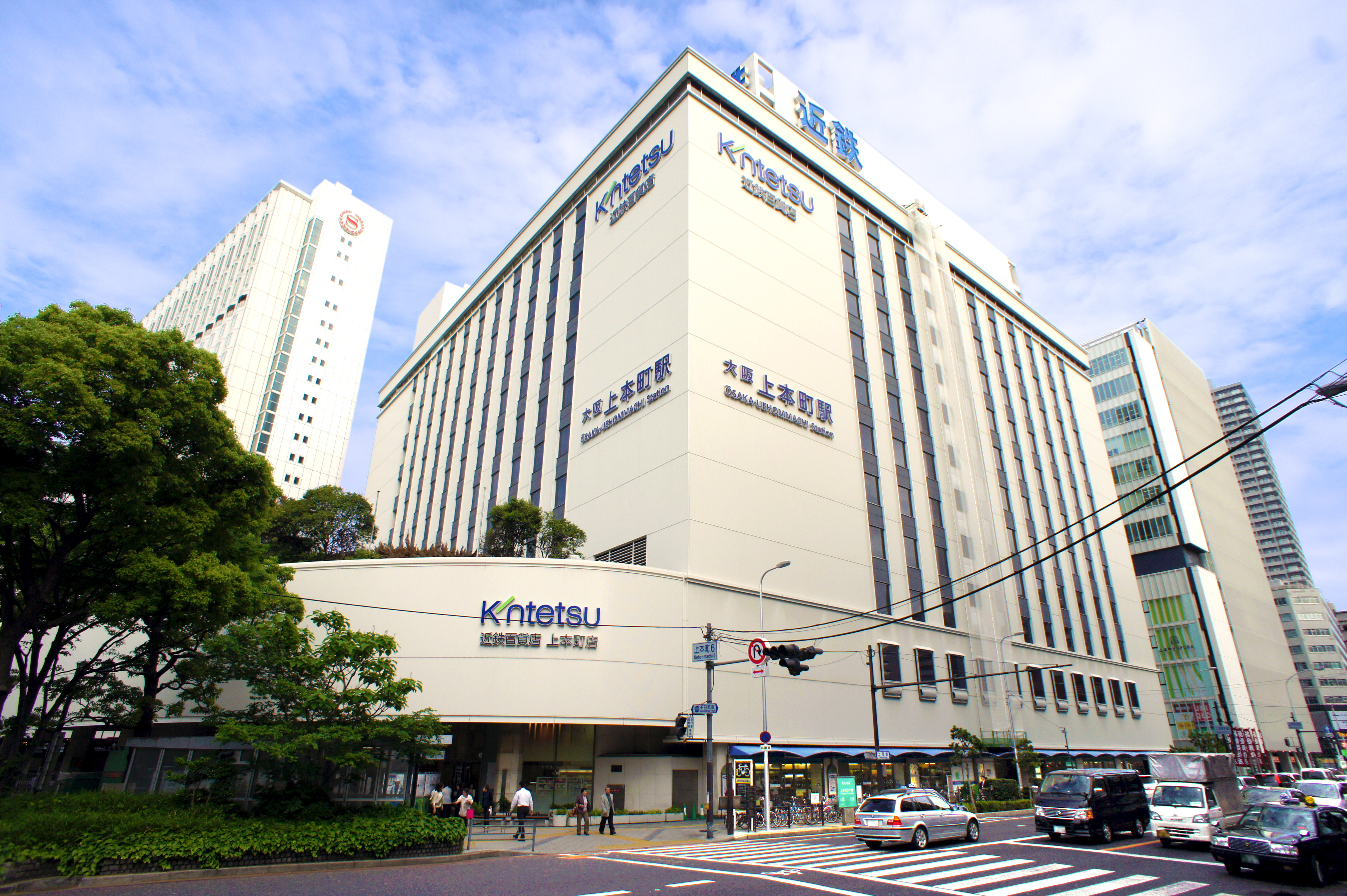 KINTETSU Uehommachi (Kintetsu Department Store Uehommachi store, Kinki Nippon Railway Osaka-Uehommachi Station), 6-1-55 Uehommachi Tennouji-ku Osaka-City Osaka Japan.